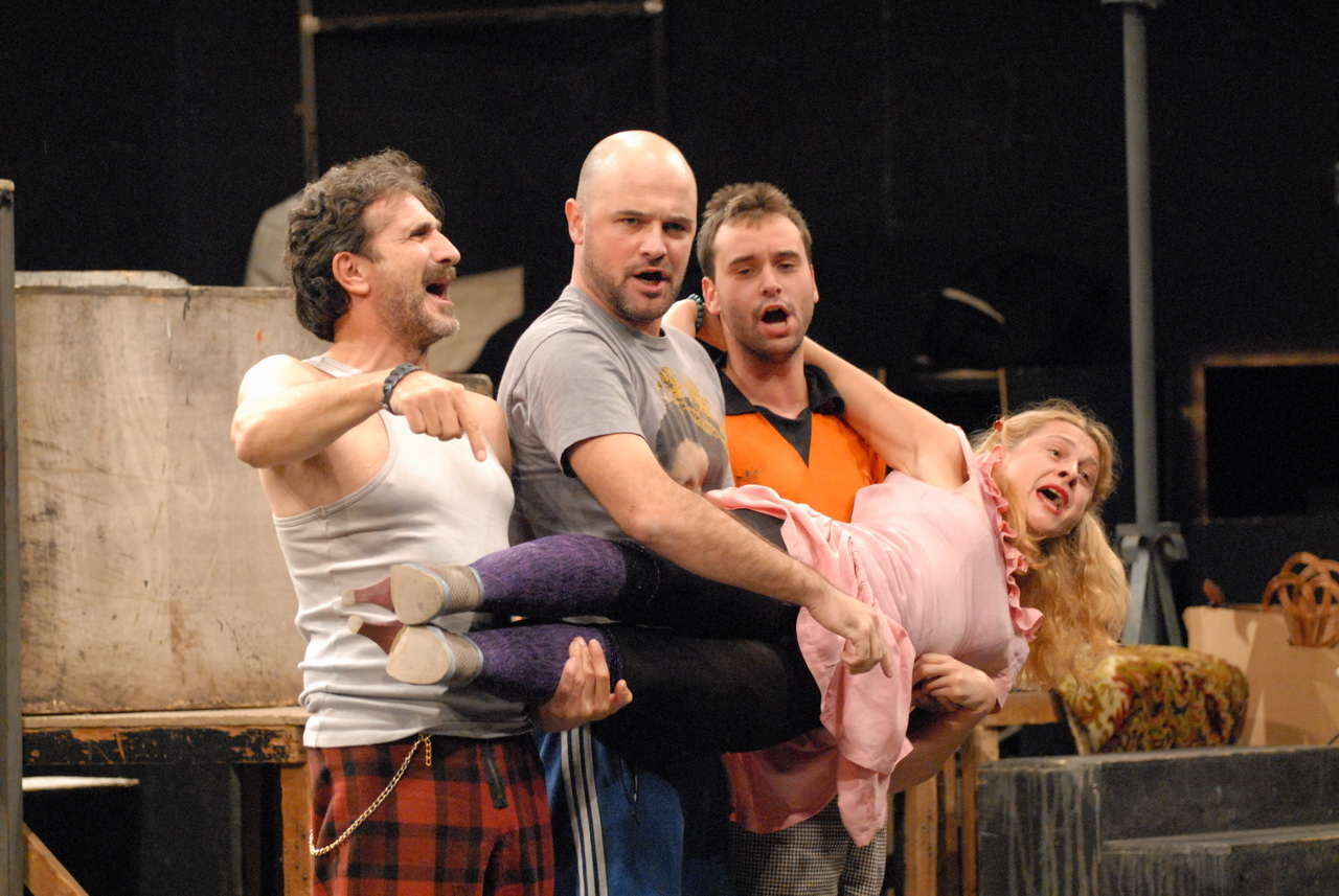 "Doll Ship" written by Milena Marković, directed by Ana Tomović, Drama of SNT, Novi Sad, 2008/09; Radoje Čupić, Nenad Pećinar, Radovan Vujović, Jasna Đuručić Srpski (latinica): "Brod za lutke" Milene Marković u režiji Ane Tomović, Drama SNP-a, Novi Sad, 2008/09; Radoje Čupić, Nenad Pećinar, Radovan Vujović, Jasna Đuručić Српски (ћирилица): "Брод за лутке" Милене Марковић у режији Ане Томовић, Драма СНП-а, Нови Сад, 2008/09; Радоје Чупић, Ненад Пећинар, Радован Вујовић, Јасна Ђуручић